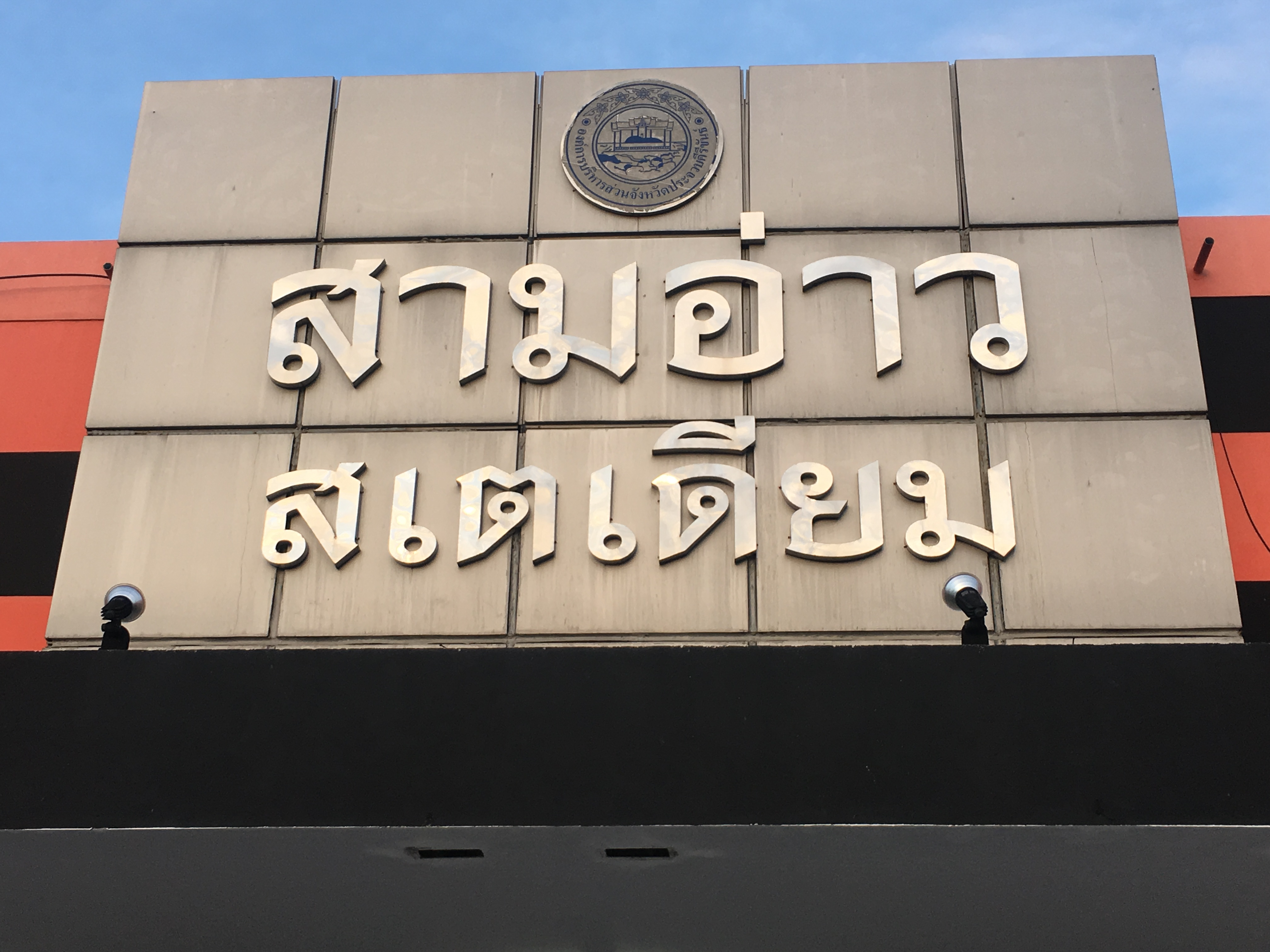 Sam Ao Stadium